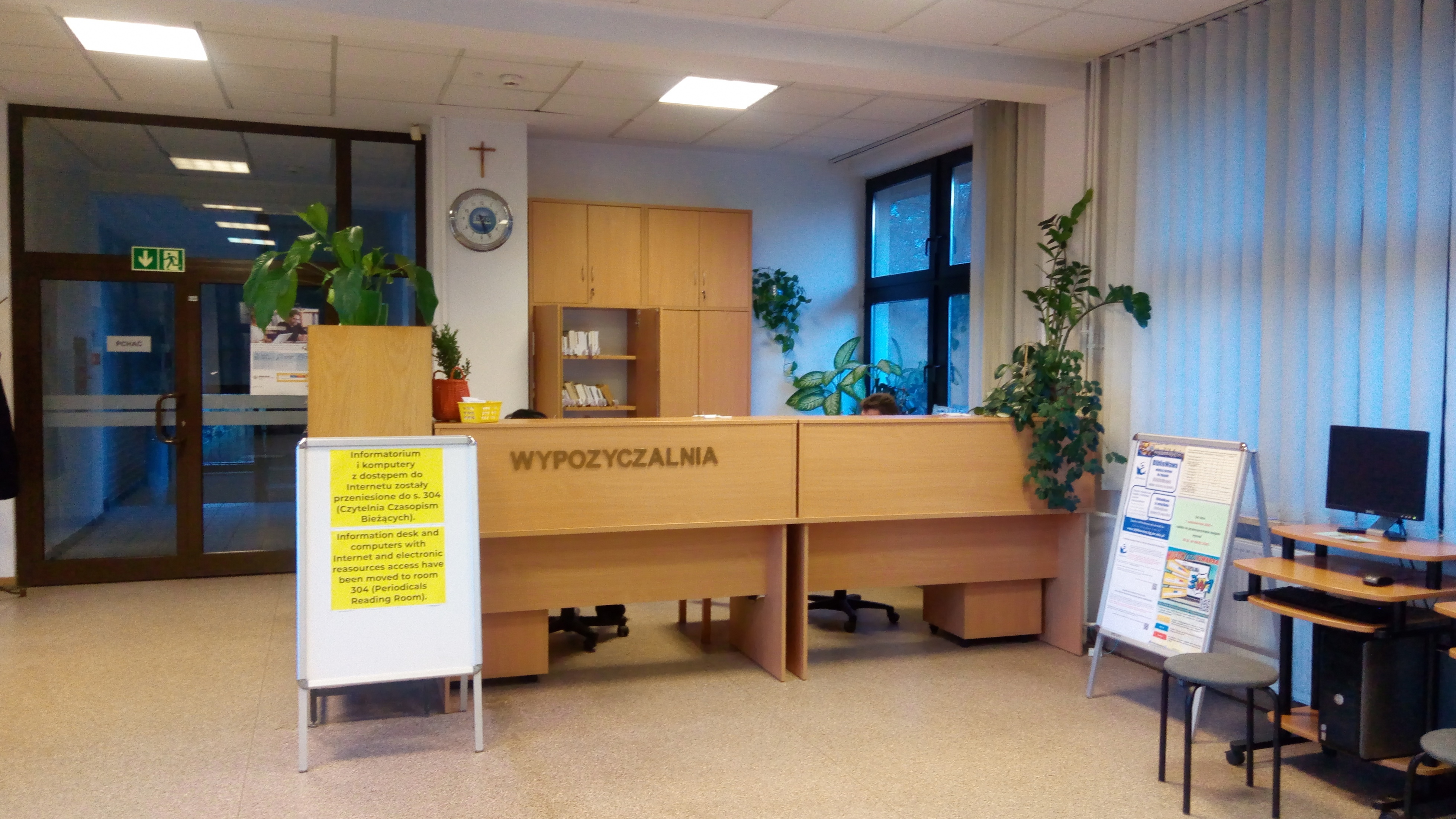 Lending Room - Main Library of the Cardinal Stefan Wyszynski University in Warsaw